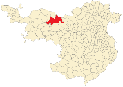 Camprodón